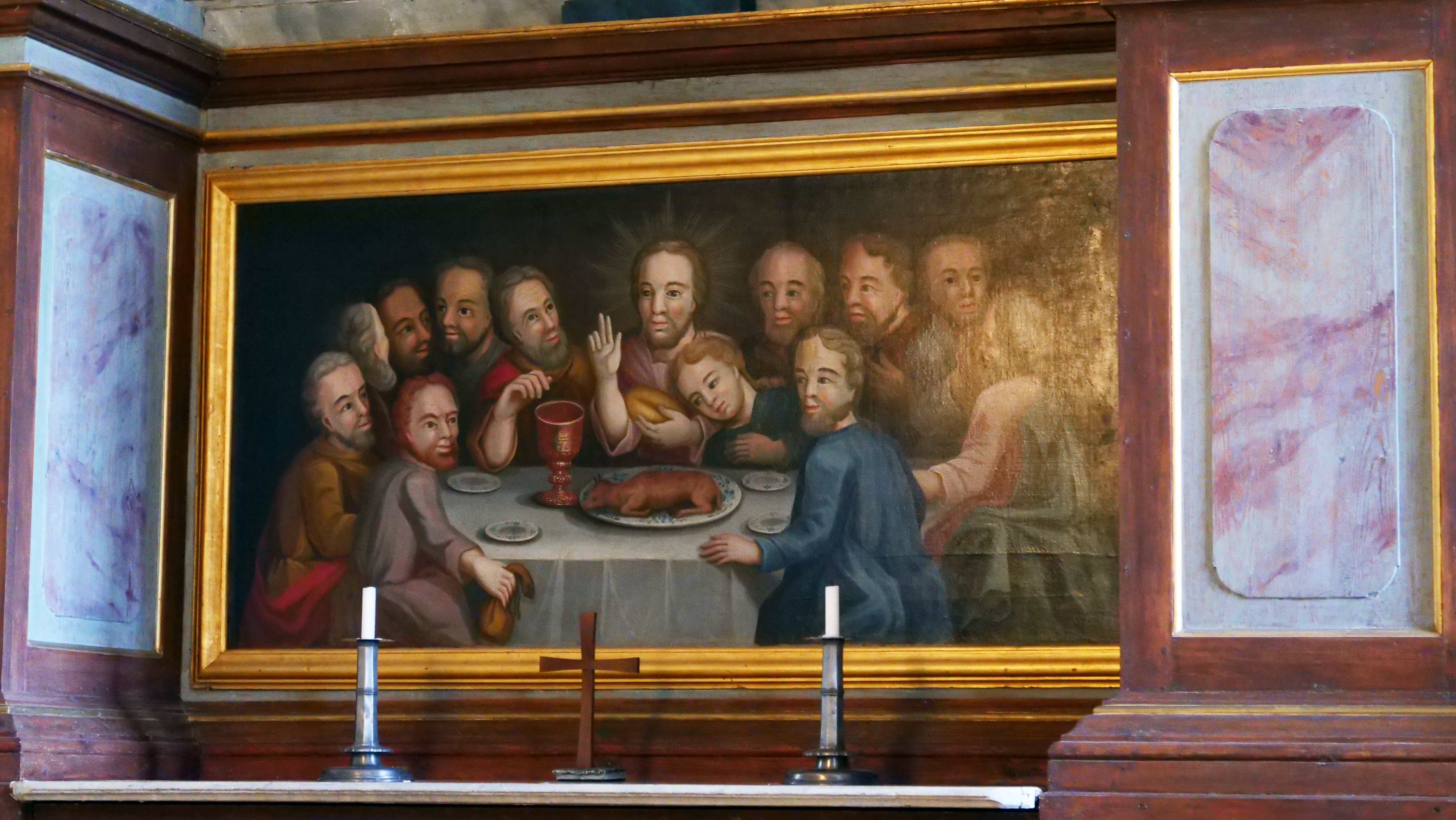 The altar painting of Piikkiö Church in Kaarina, Finland, was painted by Gustaf Lucander in 1776.